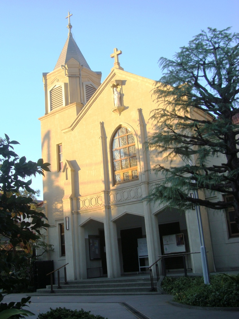 Catholic Azabu Church, 2012